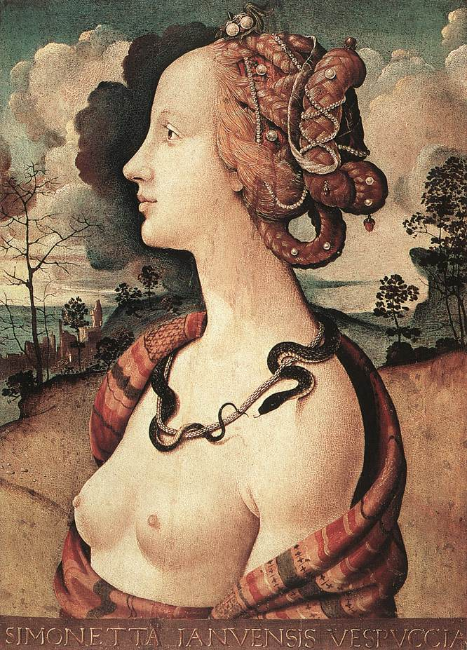 Portrait of Simonetta Vespucci by Piero di Cosimo (c.1480) Oil on panel, 57 x 42 cm Musée Condé, Chantilly